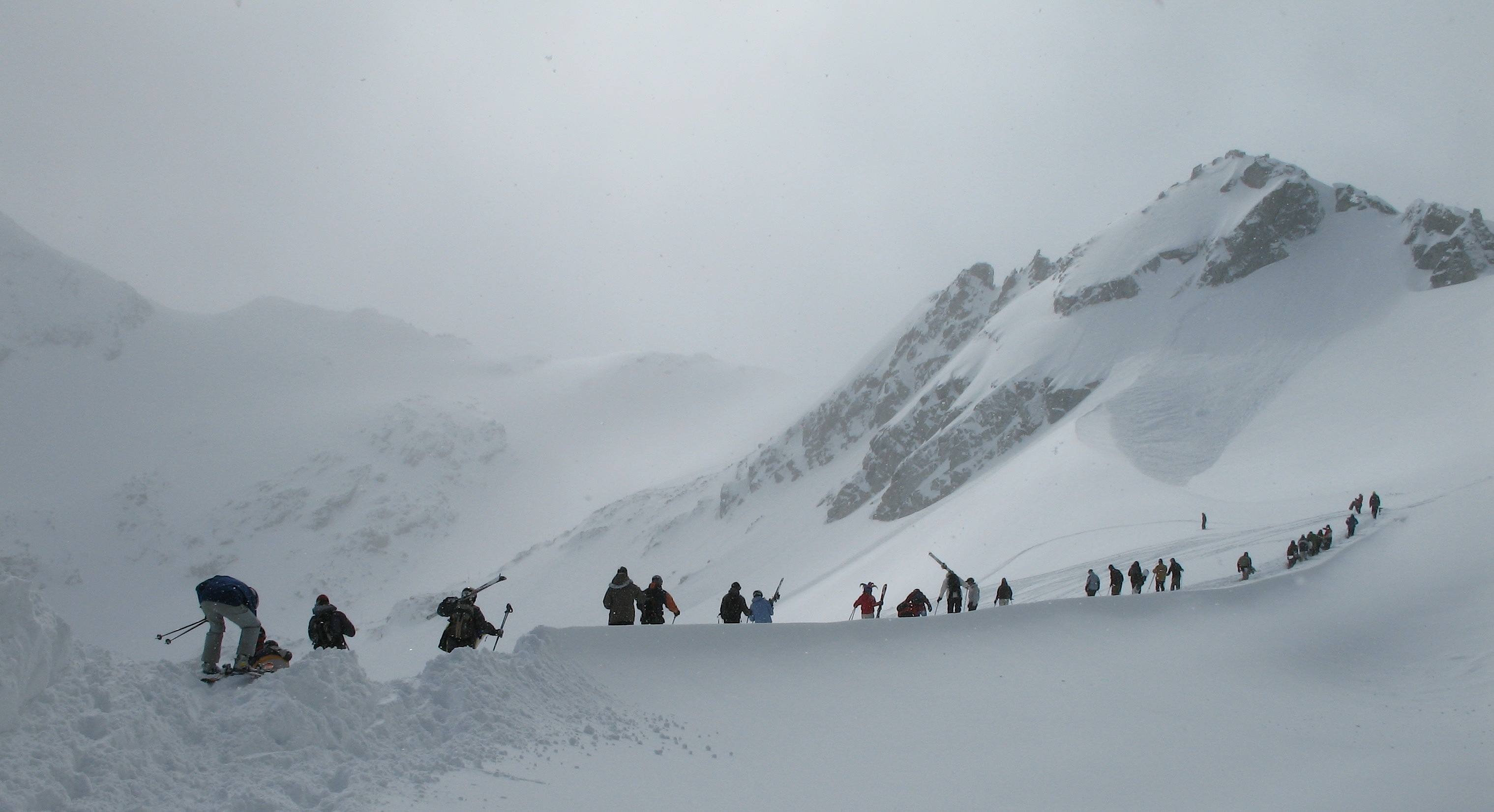 This photo was taken at the top of the Horstman Glacier, not far from the T-Bar top station, on the dividing ridge between the Horstman and Blackcomb Glacier valleys. Photo taken Easter long weekend 2006.